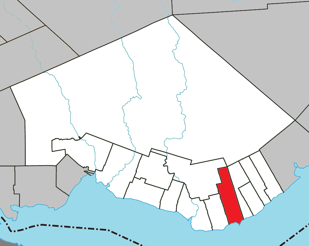 Location of Paspébiac, Quebec within Bonaventure Regional County Municipality.